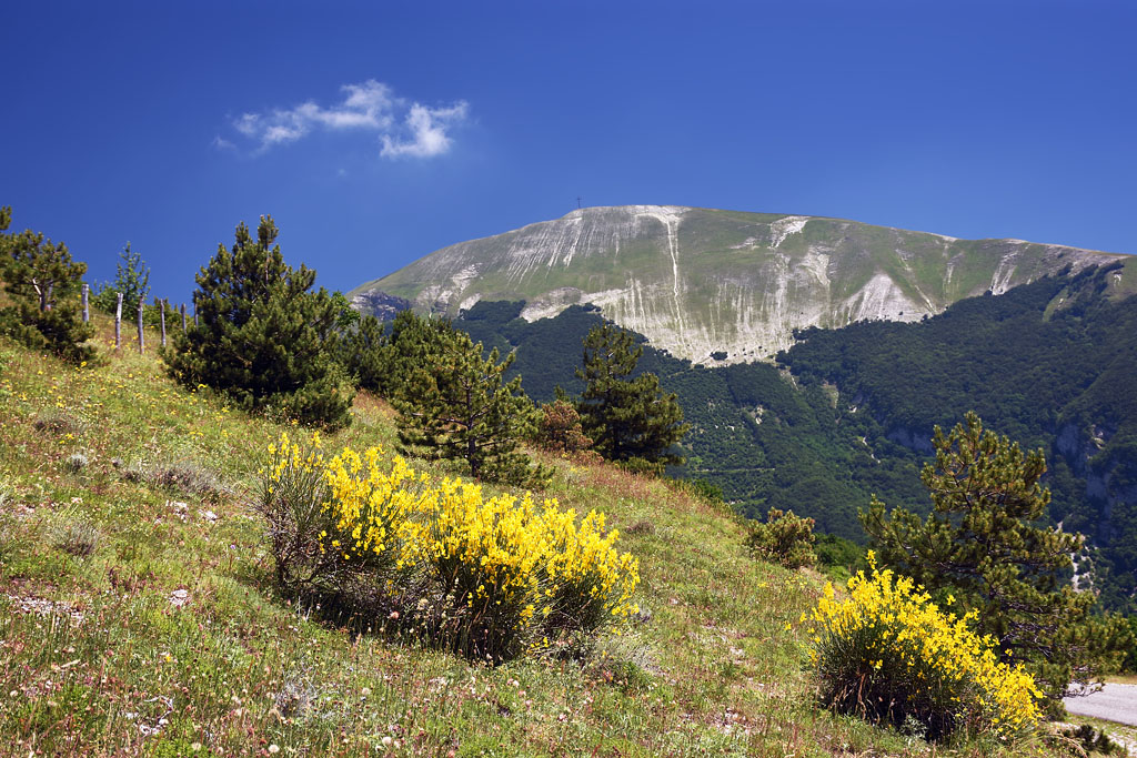 The NW side of Monte Catria